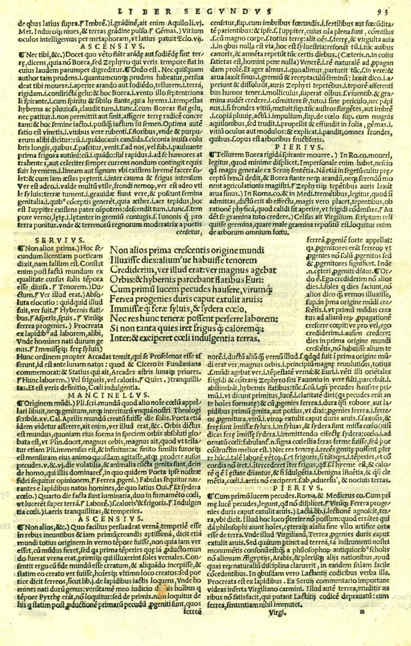 Page from Bucolica, Georgica, et Aeneis, Servii Mauri Honorati & Aelii Donati commentariis illustrata, printed by Hieronymus Curio in Basel 1544